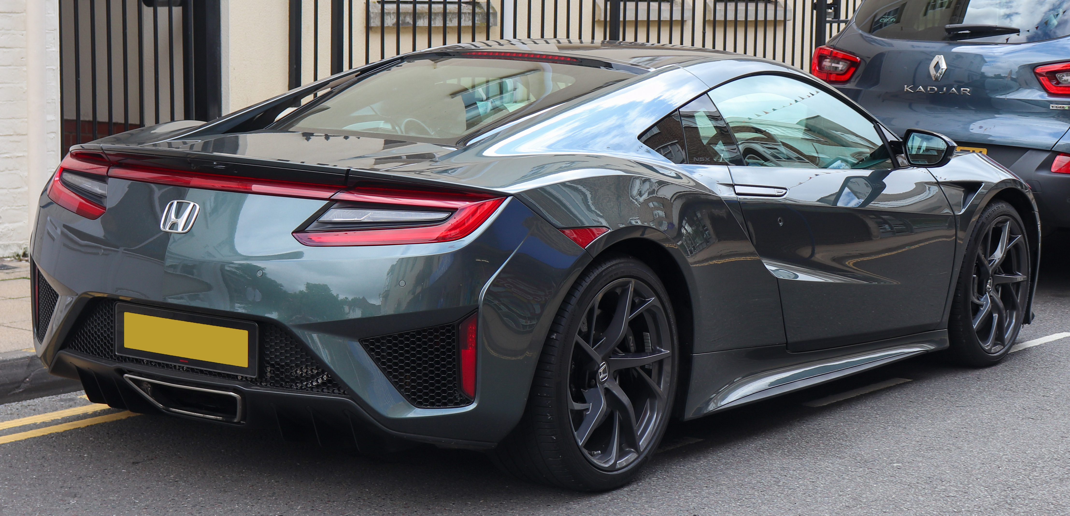 2017 Honda NSX 3.5 Rear Taken in Warwick